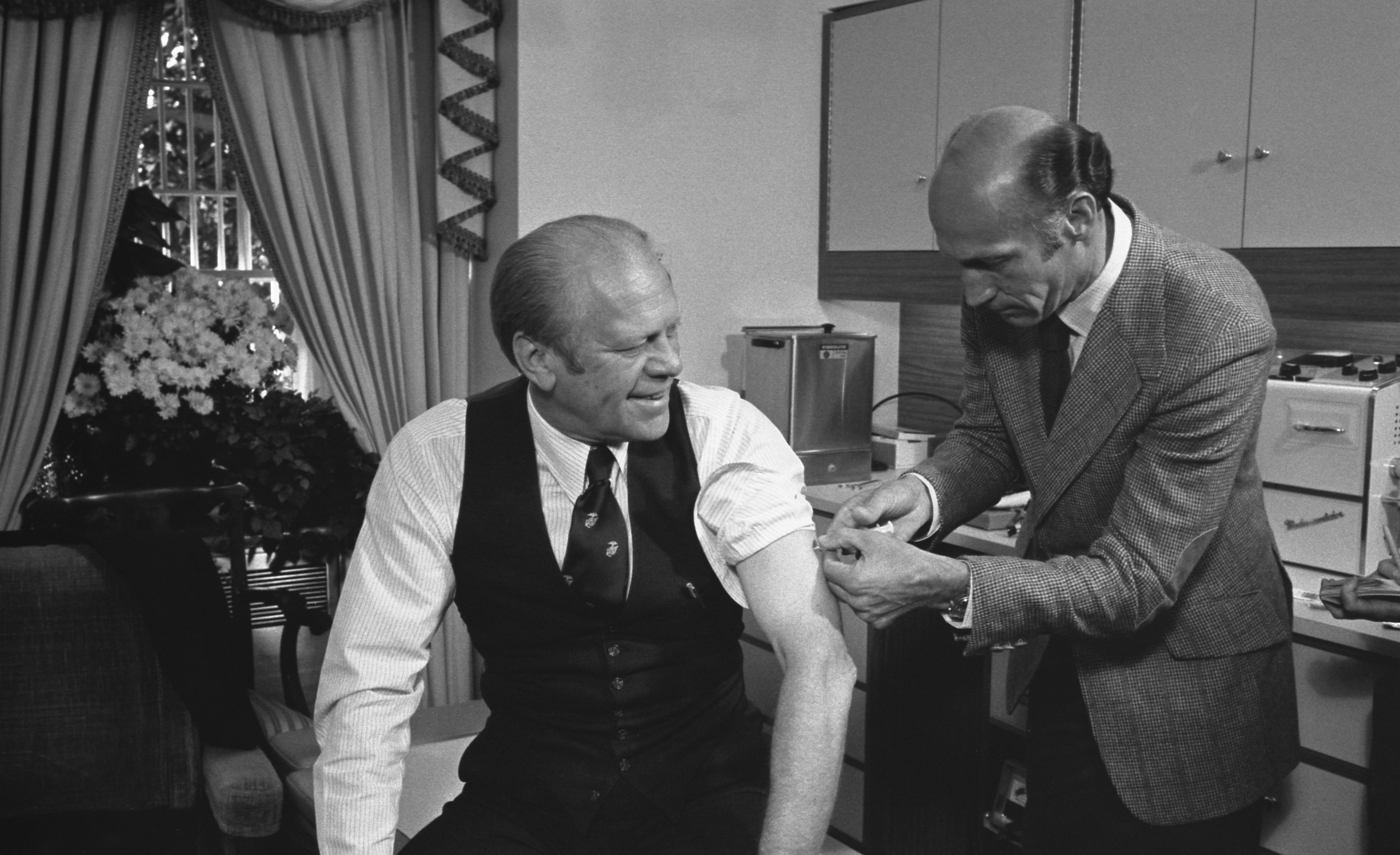 This photograph depicts President Gerald Ford receiving a swine flu inoculation from his White House physician, Dr. William Lukash on October 14, 1976.